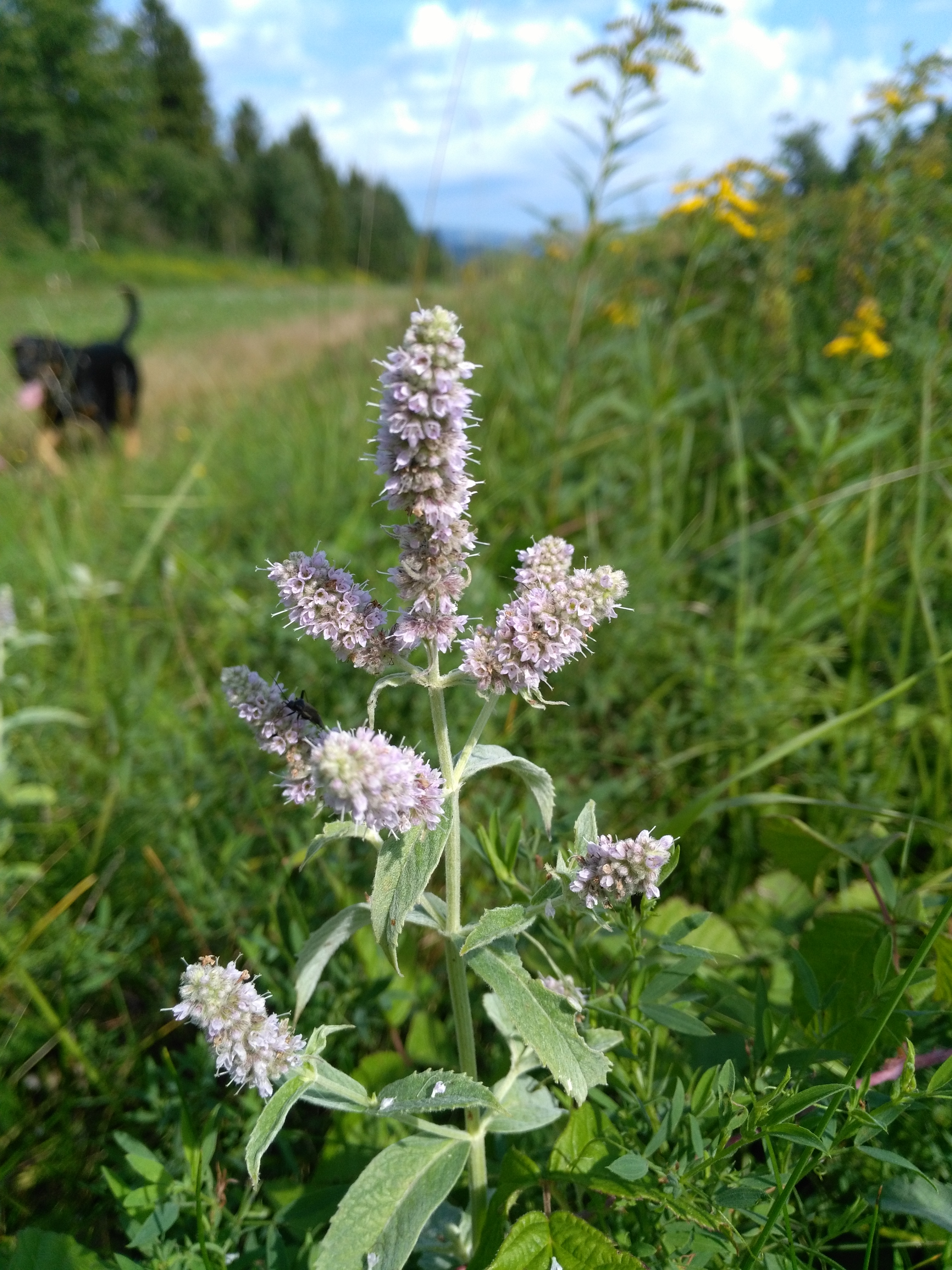 Purple flower found on the side of the Ill river